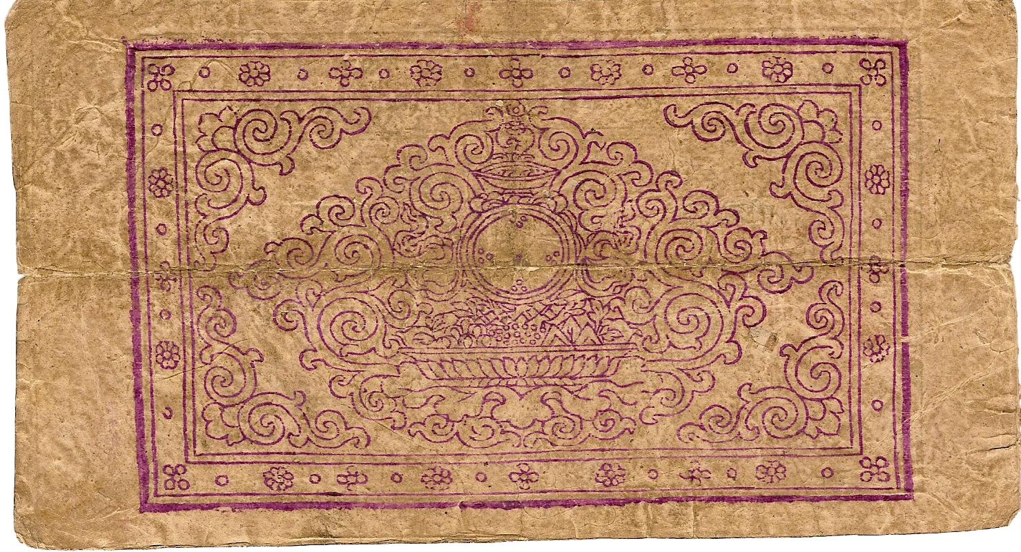 Tibetan 15 tam banknote, dated T.E. 1659 ( = AD 1913) backside.